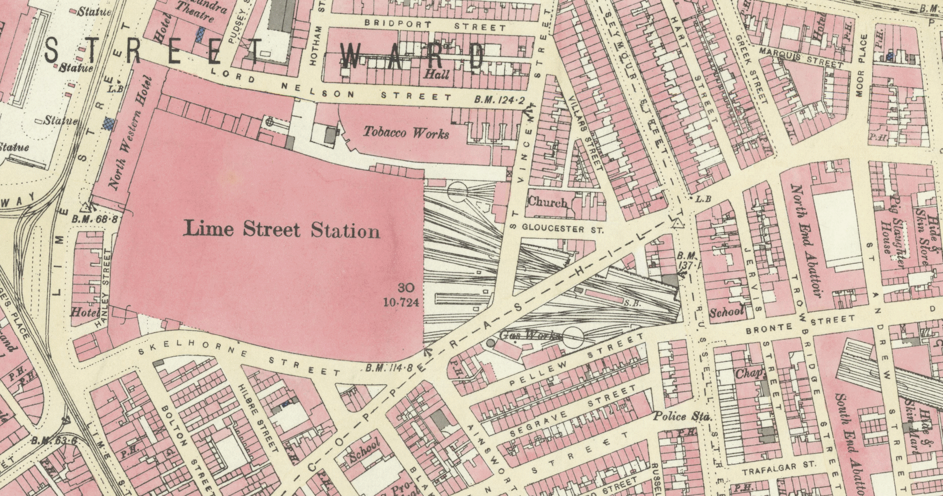 Map of Liverpool Showing The Cope's Tobacco Works in Lord Nelson St